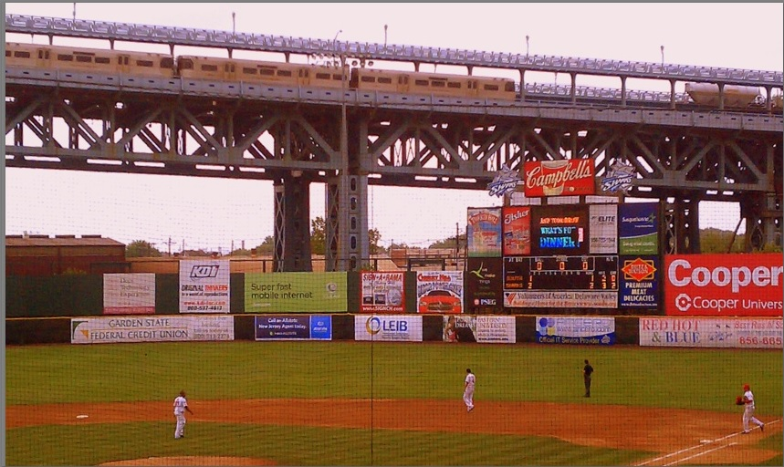 Camden Riversharks Game in 2009 with PATCO train crossing the Ben Franklin Bridge (behind the rightfield wall).